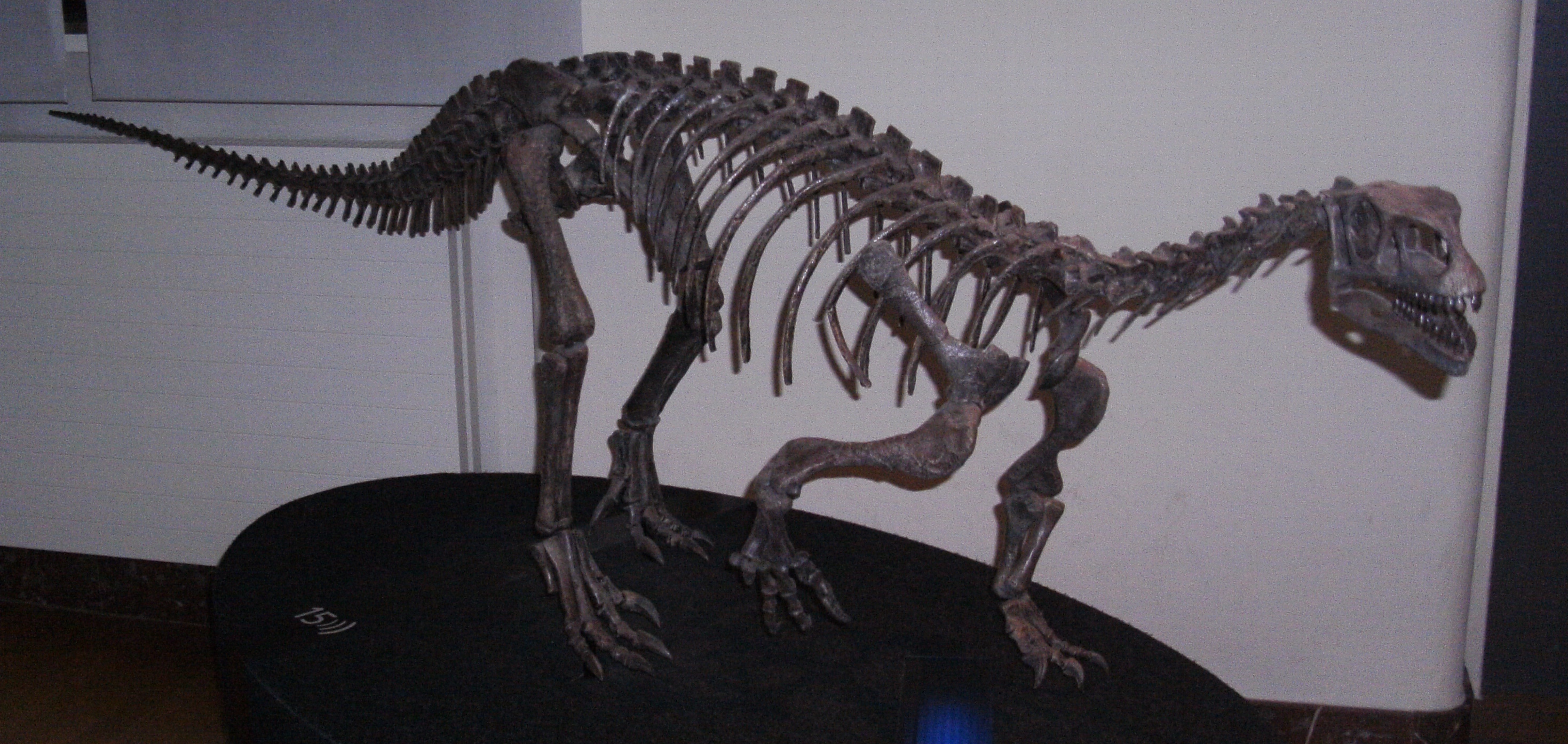 Skeleton reconstruction of the prosauropod dinosaur Leonerasaurus